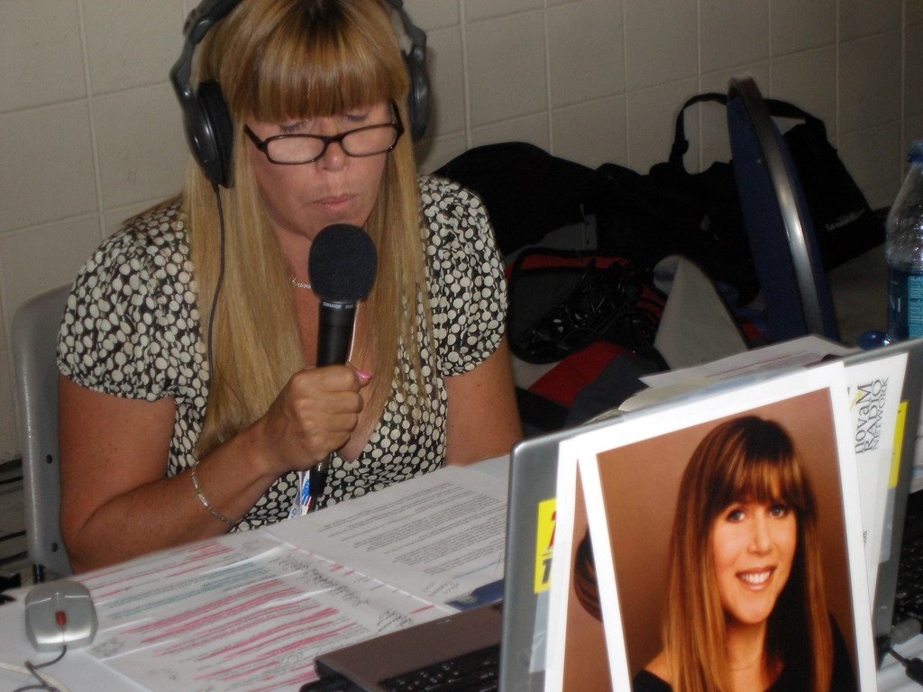 Randi Rhodes hosts The Randi Rhodes Show from the 2008 Democratic National Convention in Denver, Colorado.